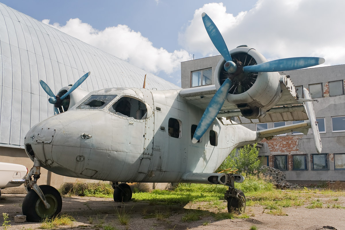 Preserved An-14 at Aleksotas airport (S. Dariaus / S. Gireno) (EYKS), Kaunas